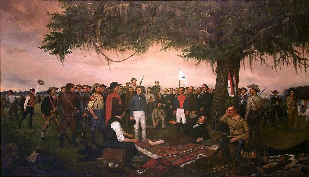 William Huddle's 1886 depiction of the end of the Texas Revolution shows Mexican General Santa Anna surrendering to the wounded Sam Houston after the Battle of San Jacinto in 1836. The Revolution lasted less than one year but resulted in a great loss of territory for the Mexicans. Following the Revolution, Texas proclaimed itself a republic affiliated with neither the United States nor Mexico.